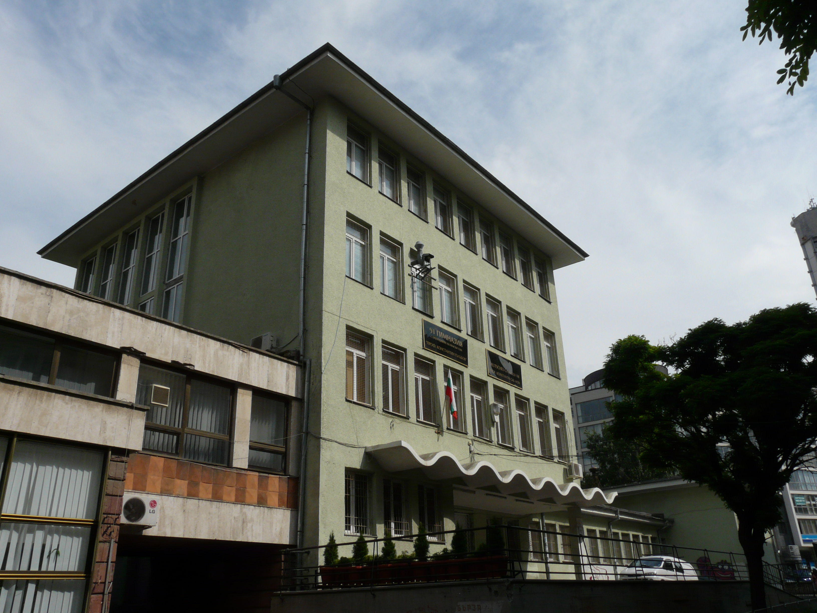 91st High School - Sofia